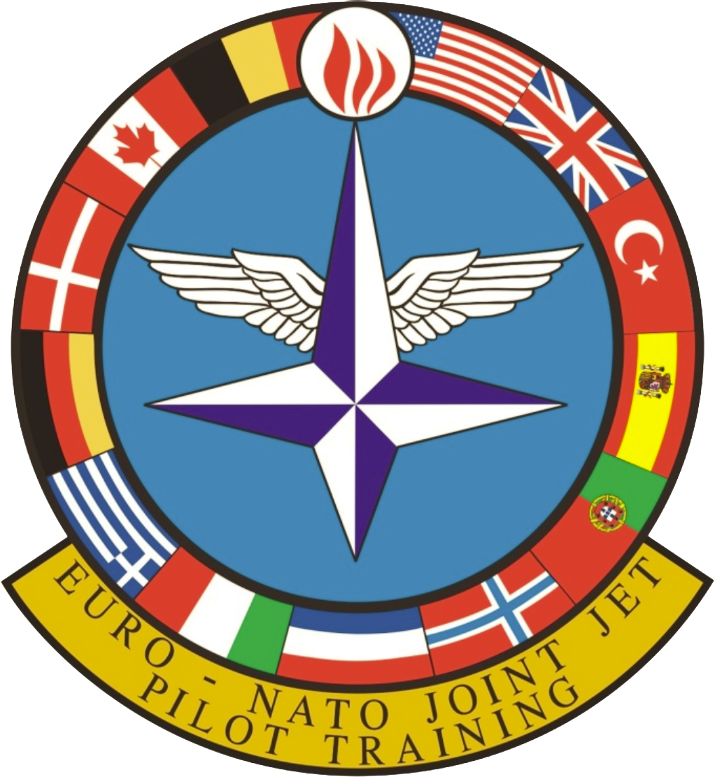 Official logo of the Euro-NATO Joint Jet Pilot Training program